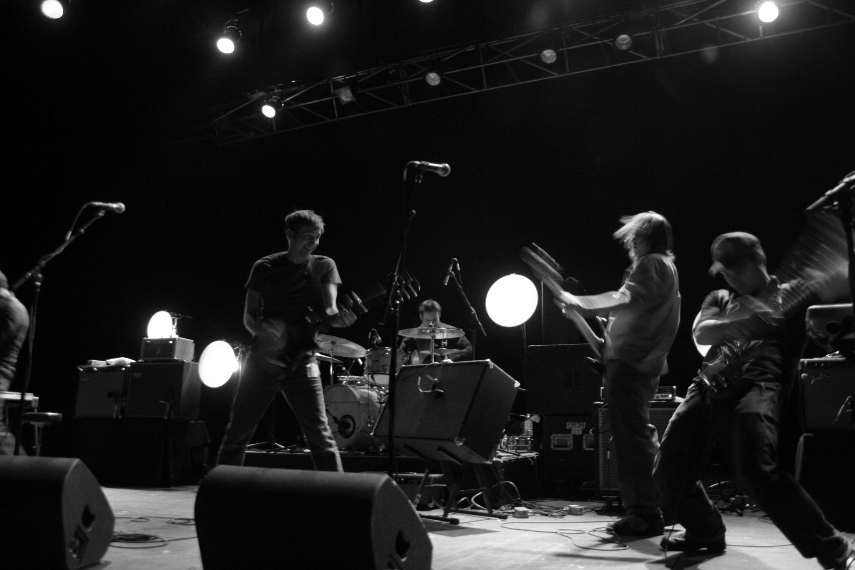 The Weakerthans performing on December 22nd, 2007 at Burton Cummings Theatre in Winnipeg, Manitoba, Canada.